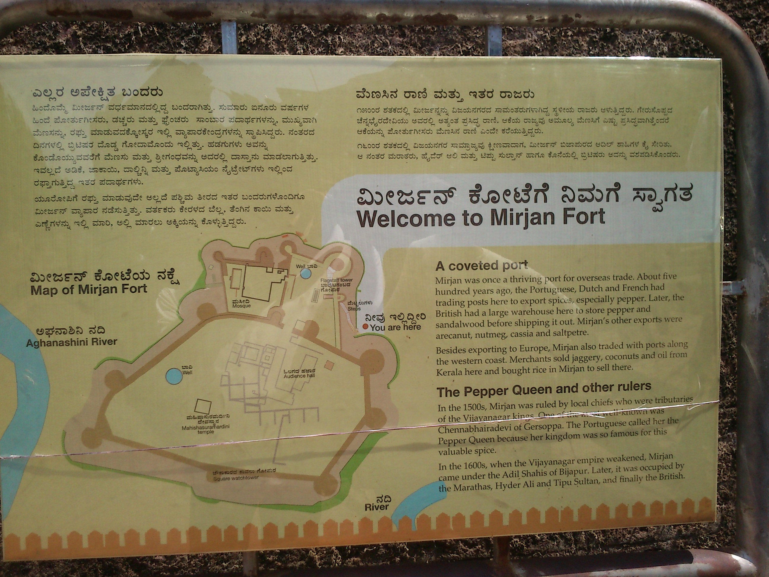 Fort details and map